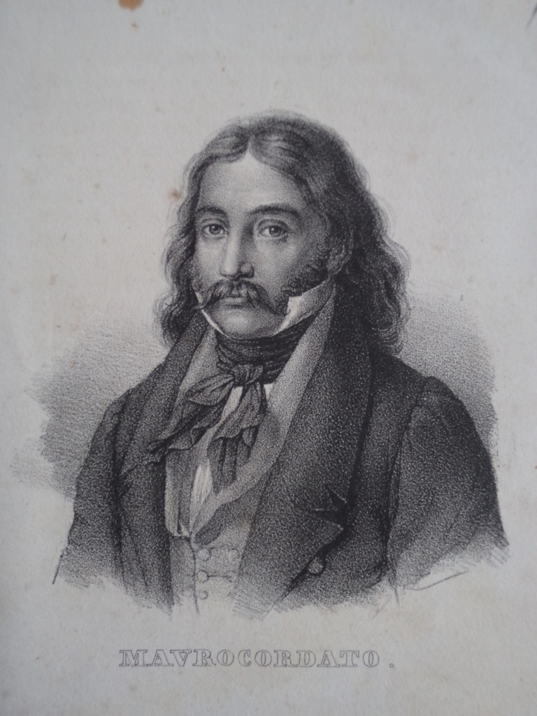 Alexandros Mavrokordatos young